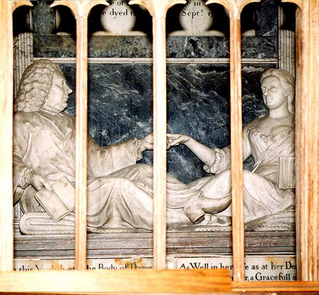 Holy Trinity, Bottisham - Monument to Sir Roger and Elizabeth (nee Soame) Jenyns